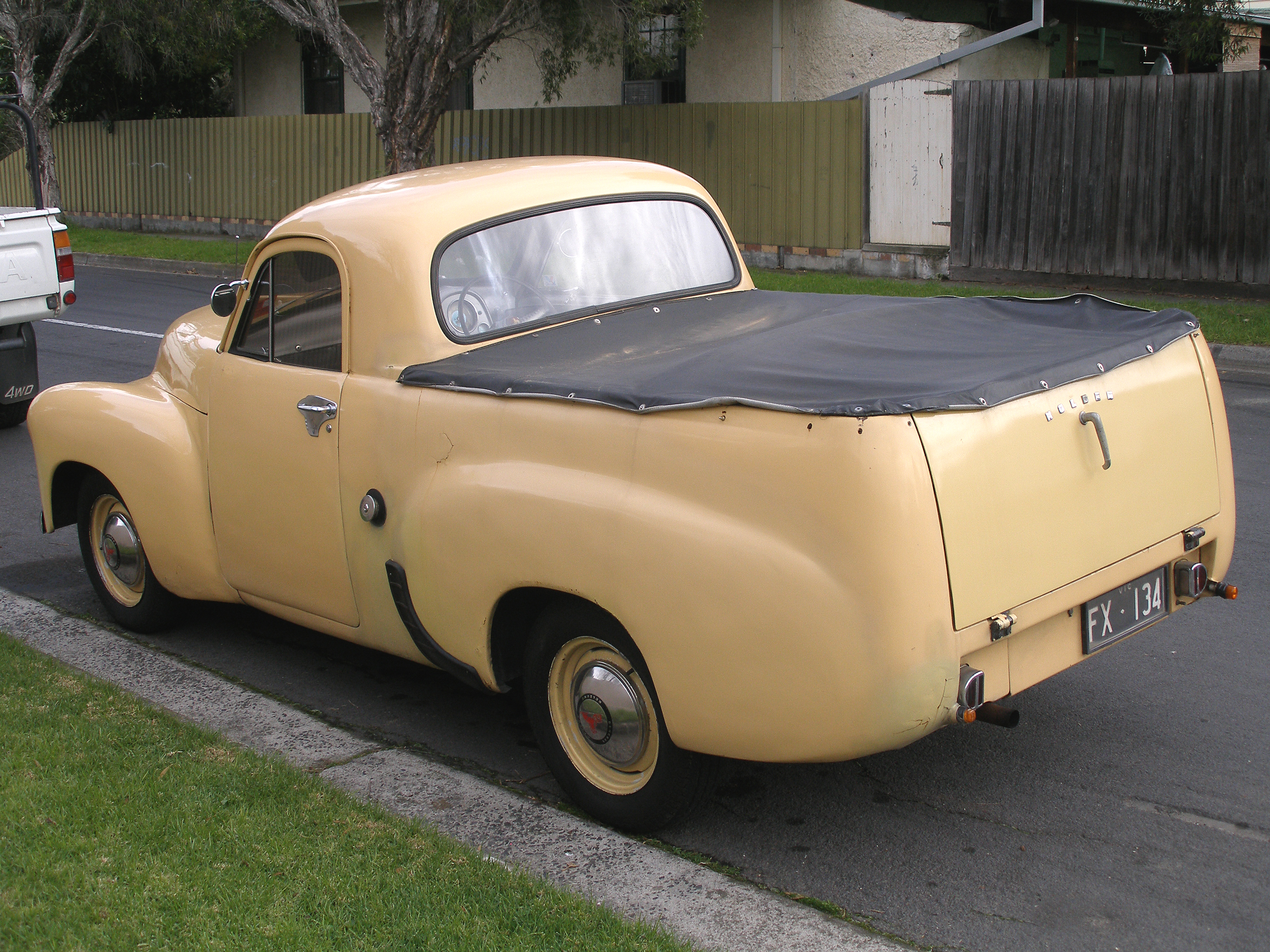 1951-1953 Holden 50-2106, photographed in Victoria, Australia.